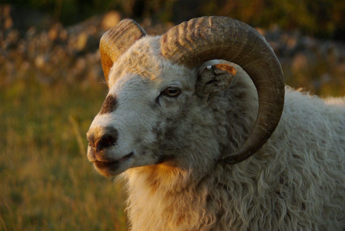 The Värmland sheep is one of several old swedish breeds, all belonging to the group of nordic short-tailed sheeps. Fleece color and horn shape vary. This is a young white ram with large and wide horns.